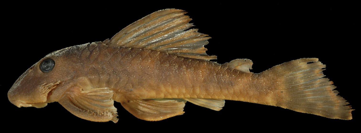 Lateral view of holotype of Peckoltia ephippiata sp. n., MCP 35627, 101.7 mm SL. Photos by J. W. Armbruster.